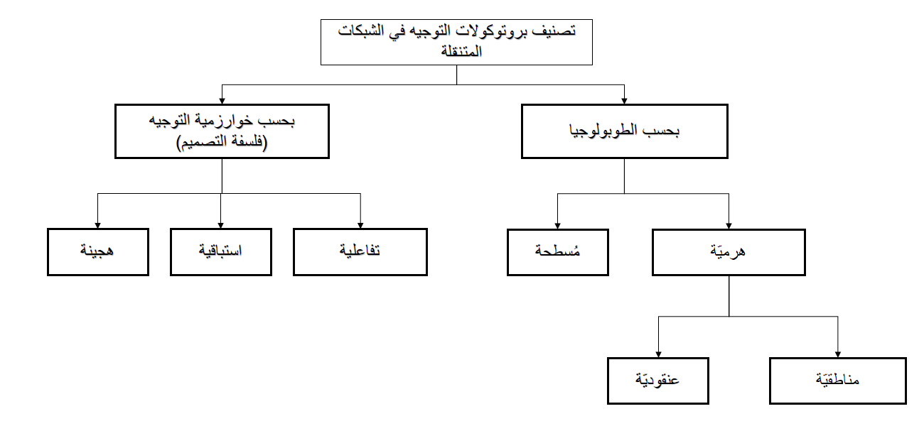 Mobile Ad-hoc Routing Protocol Classification.